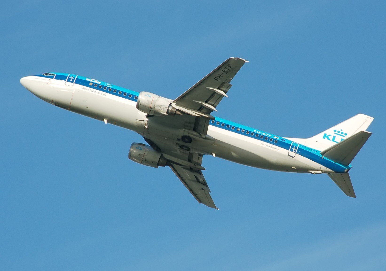 KLM Boeing 737-400 (PH-BTF) takes off from London Heathrow Airport, England. Photographed by Adrian Pingstone in January 2007 and released to the public domain.